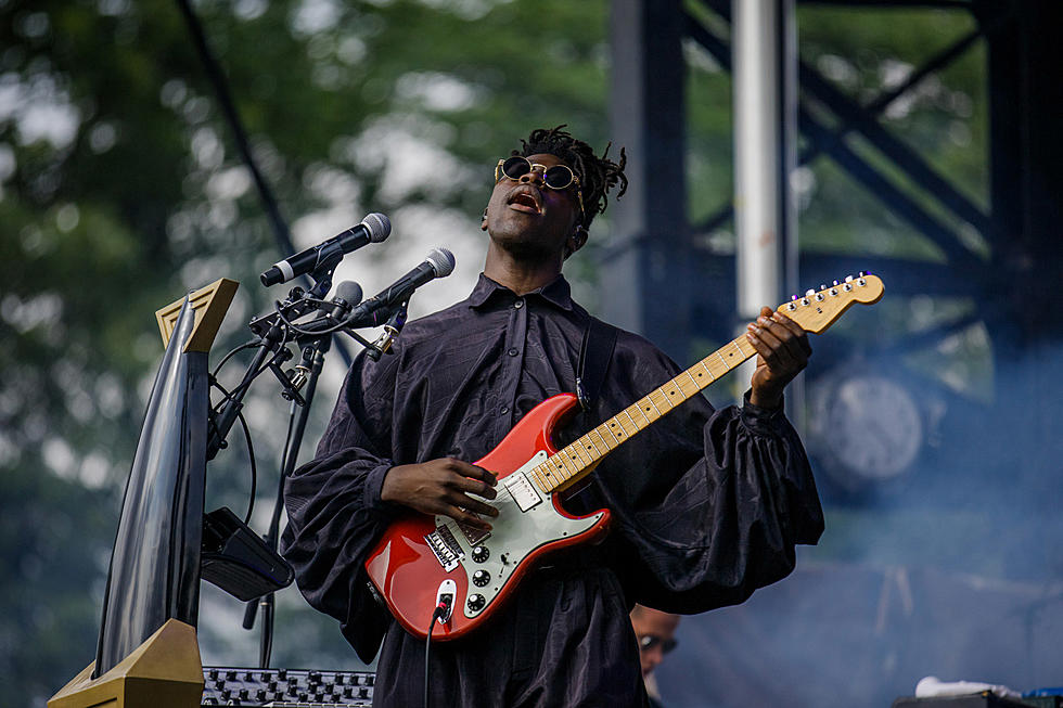 Moses Sumney at Pitchfork Music Festival (2018)